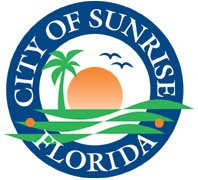 The seal and logo of the City of Sunrise, Florida.